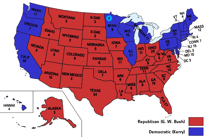 2004 Electoral College Map